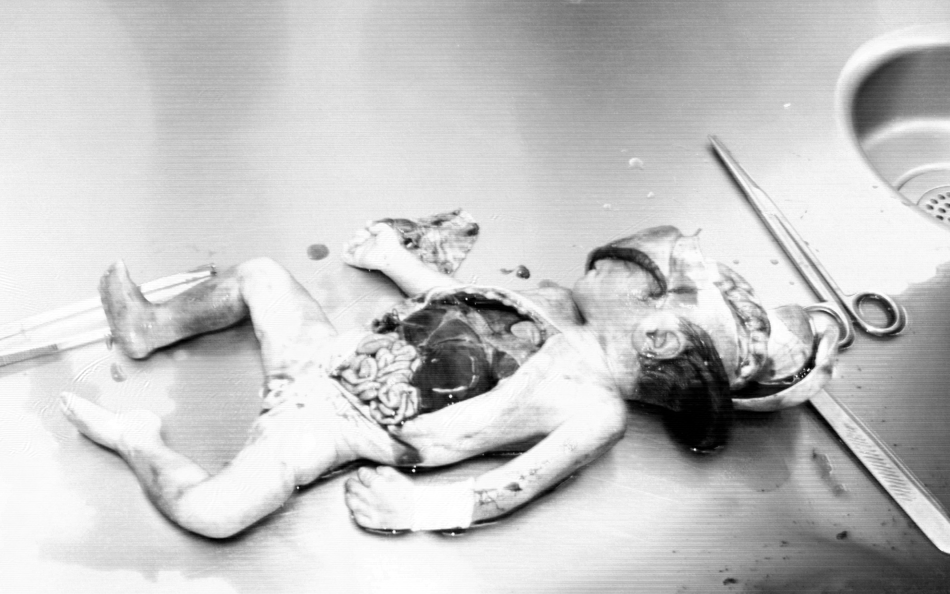 Dissection Neonate: Neonate deceased, used to smuggle drugs.(See Autopsy and Dissection)